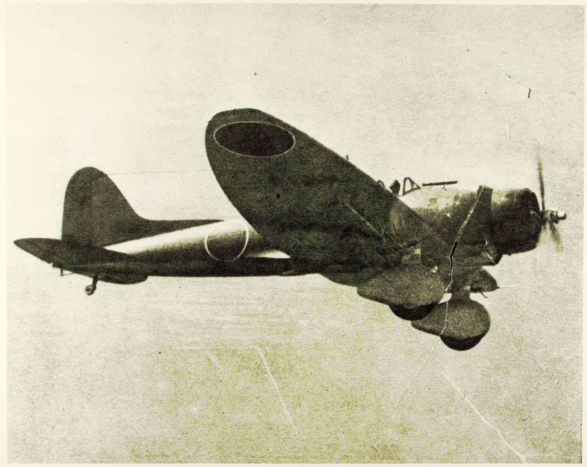 Title: Aichi, D3A, Val Navy type 99 Carrier bomber Notes: Japan Catalog #: 01_00090106 Manufacturer: Aichi Designation: D3A Official Nickname: Val Navy type 99 Carrier bomber Repository: San Diego Air and Space Museum Archive Tags: Aichi, D3A, Val Navy type 99 Carrier bomber, Japan